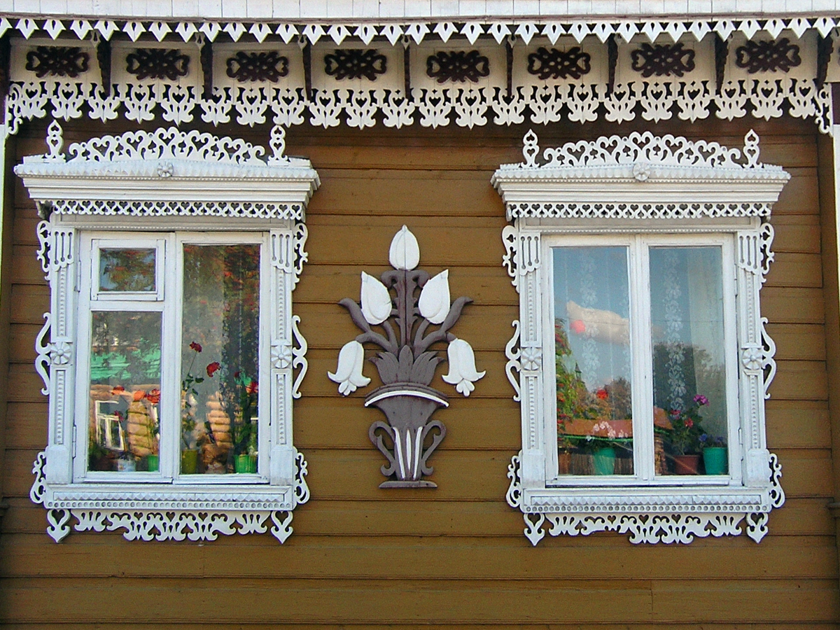 Wooden window art in Suzdal, Russia.